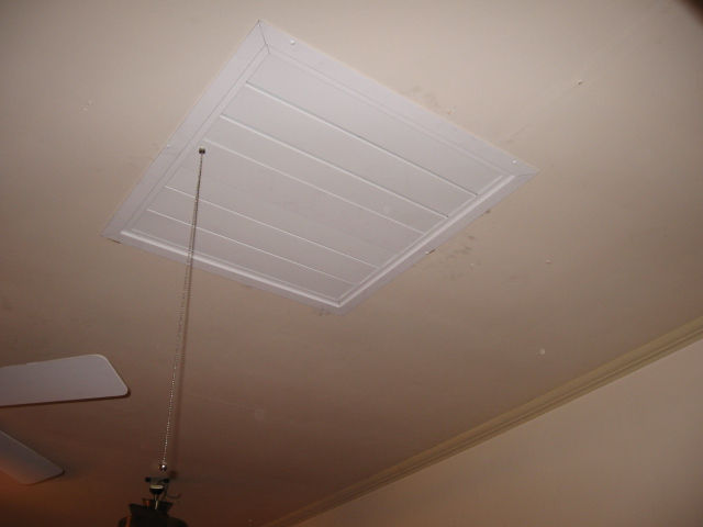 Photo of a whole-house fan, installed. Visible are the shutters (which are closed when the fan is turned off), and the pull-chain control used to turn the fan on and adjust the speed.